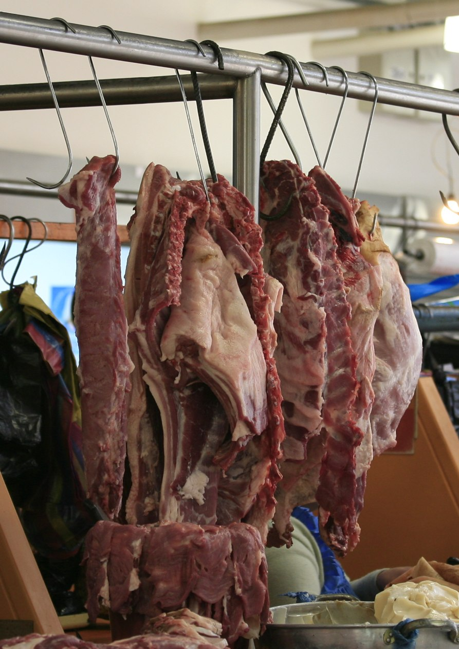 The Meat Market